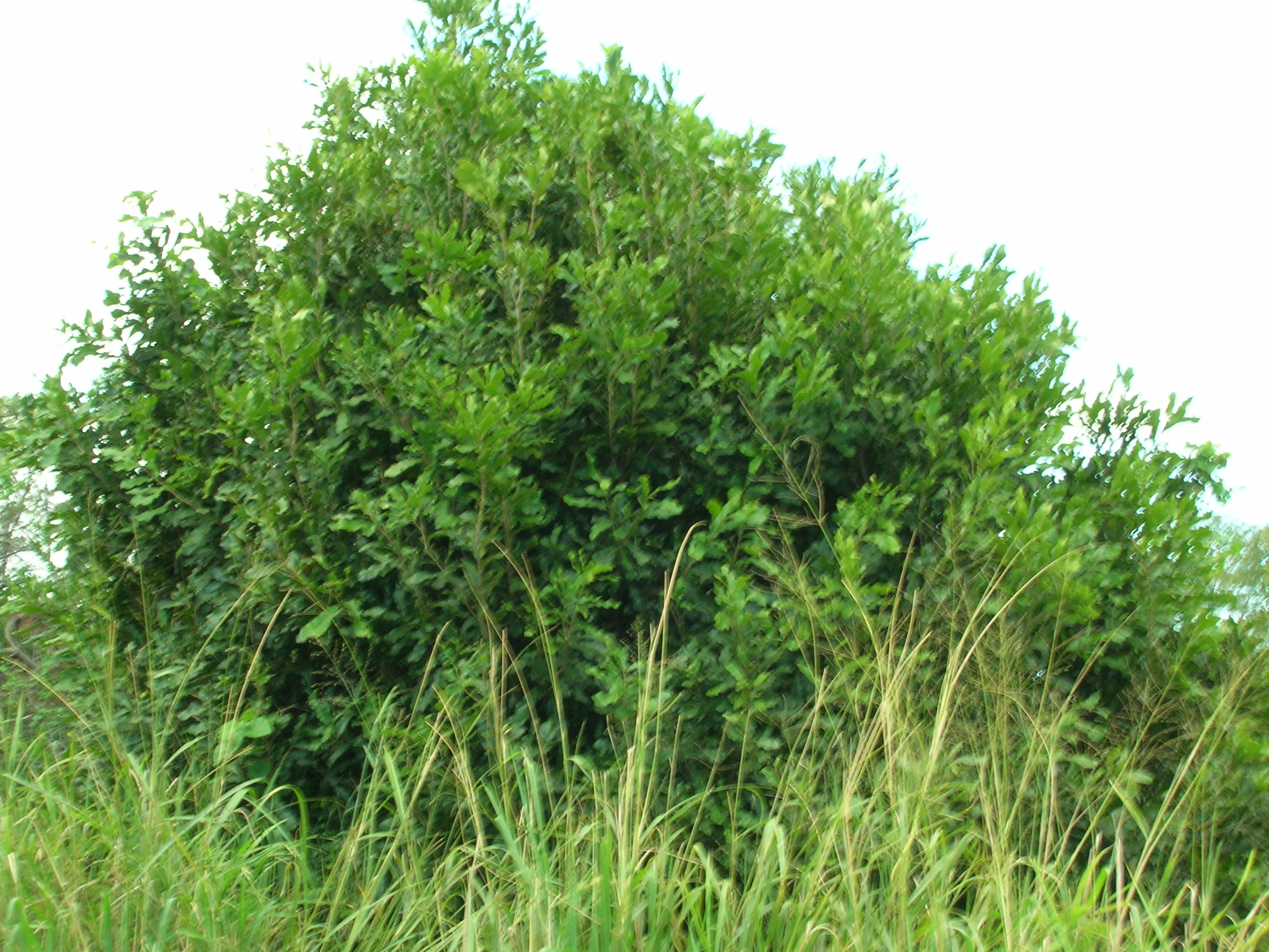 Macadamia integrifolia (habit). Location: Maui, Kula